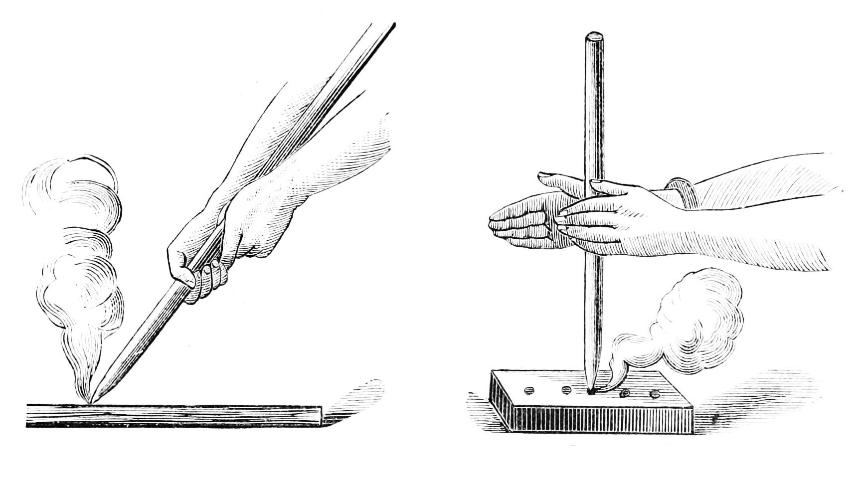 Ancient fire making methods